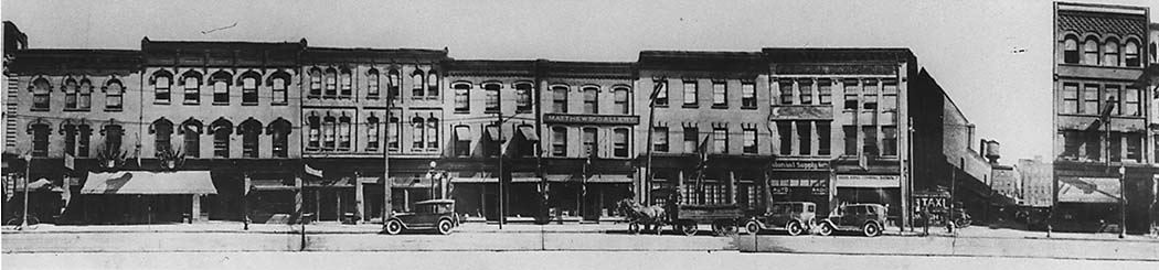 Toronto, Ontario, Canada. Old Toronto Star Building site - 80 King Street west before its construction.